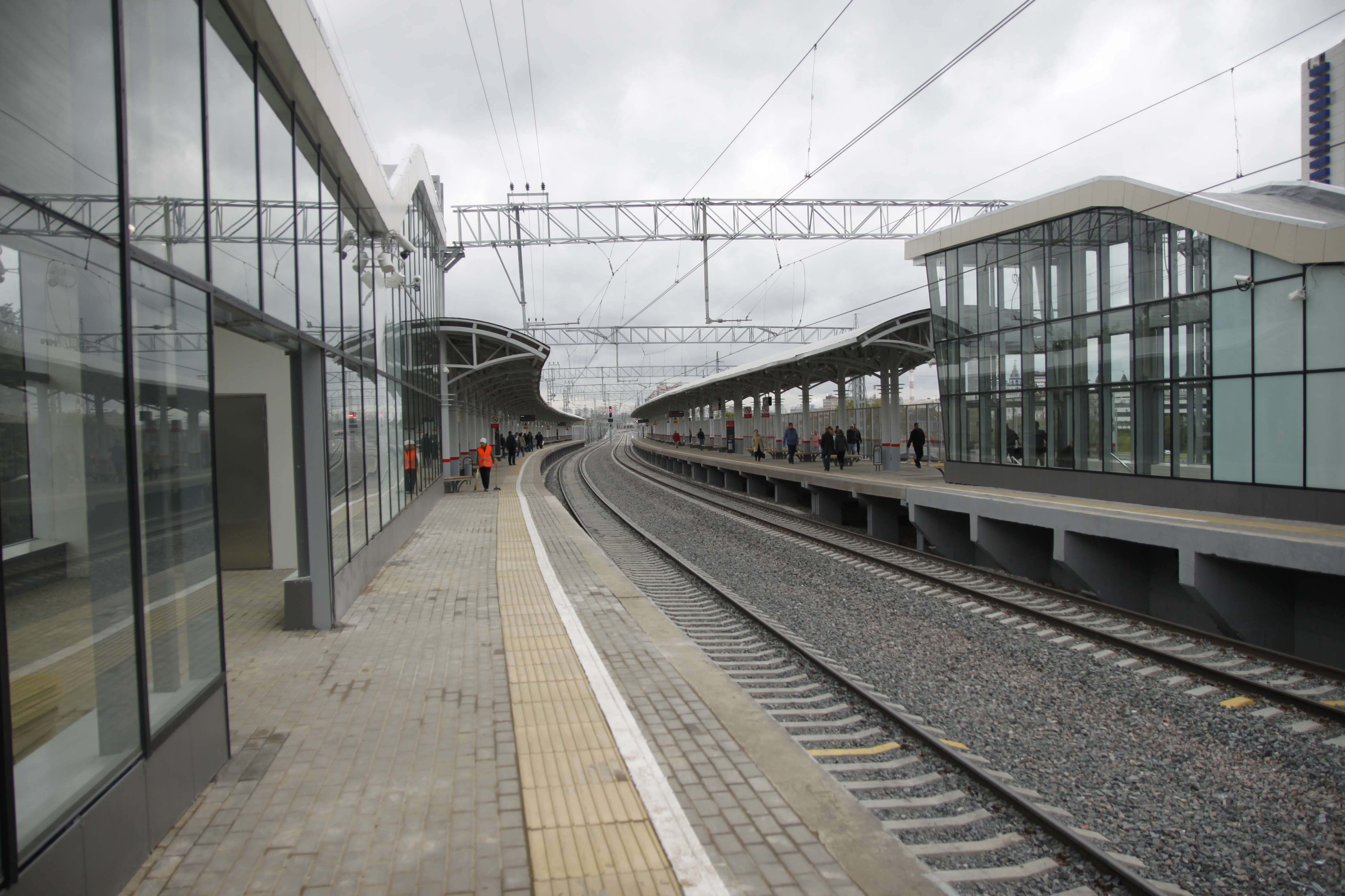 Izmailovo MCC station